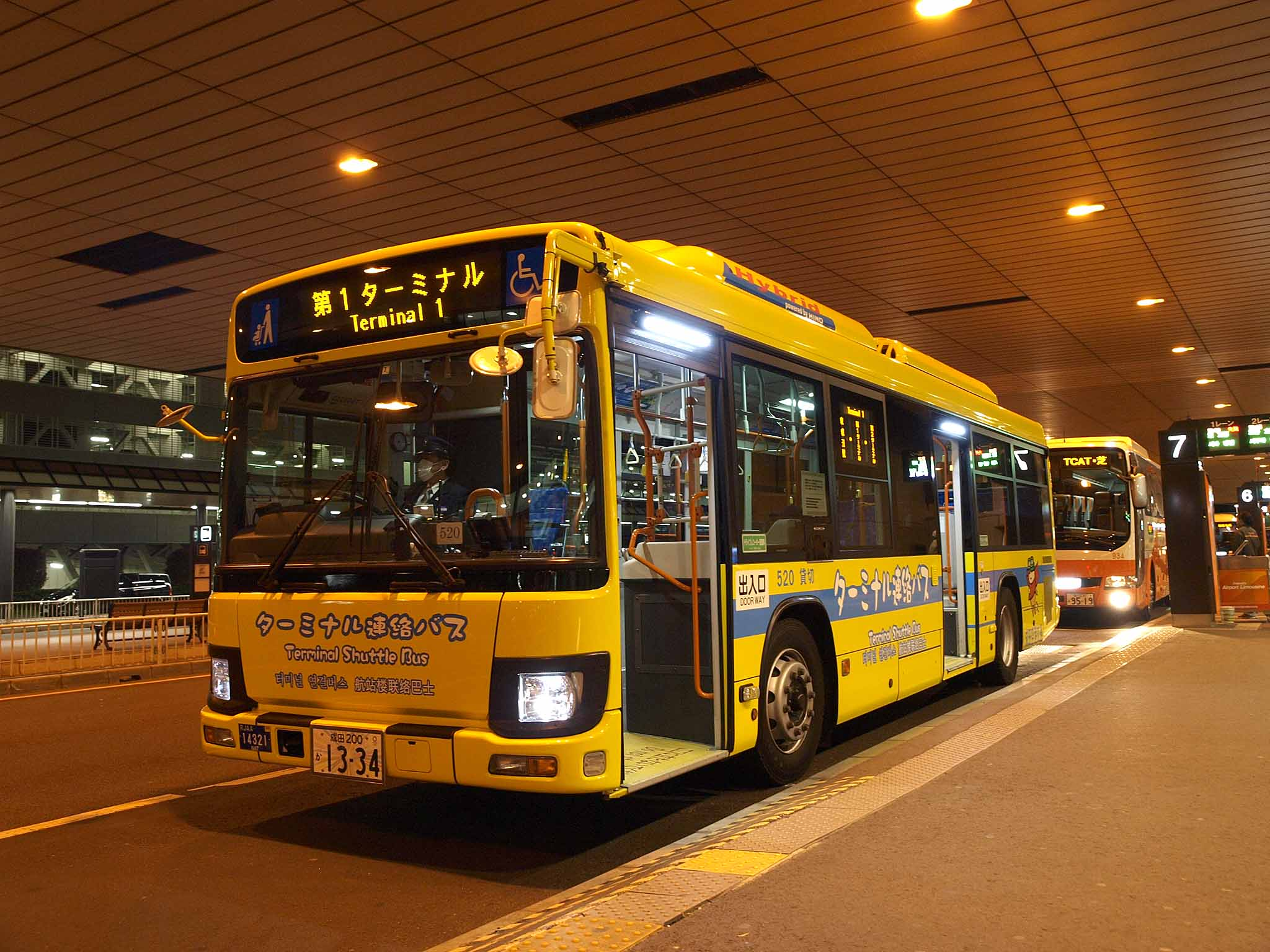 Fleet of Narita Airport Transport, for Terminal Connection Bus at Narita International Airport. Model: Hino Blue Ribbon Hybrid HL2AS License plate: CBR200 KA1334